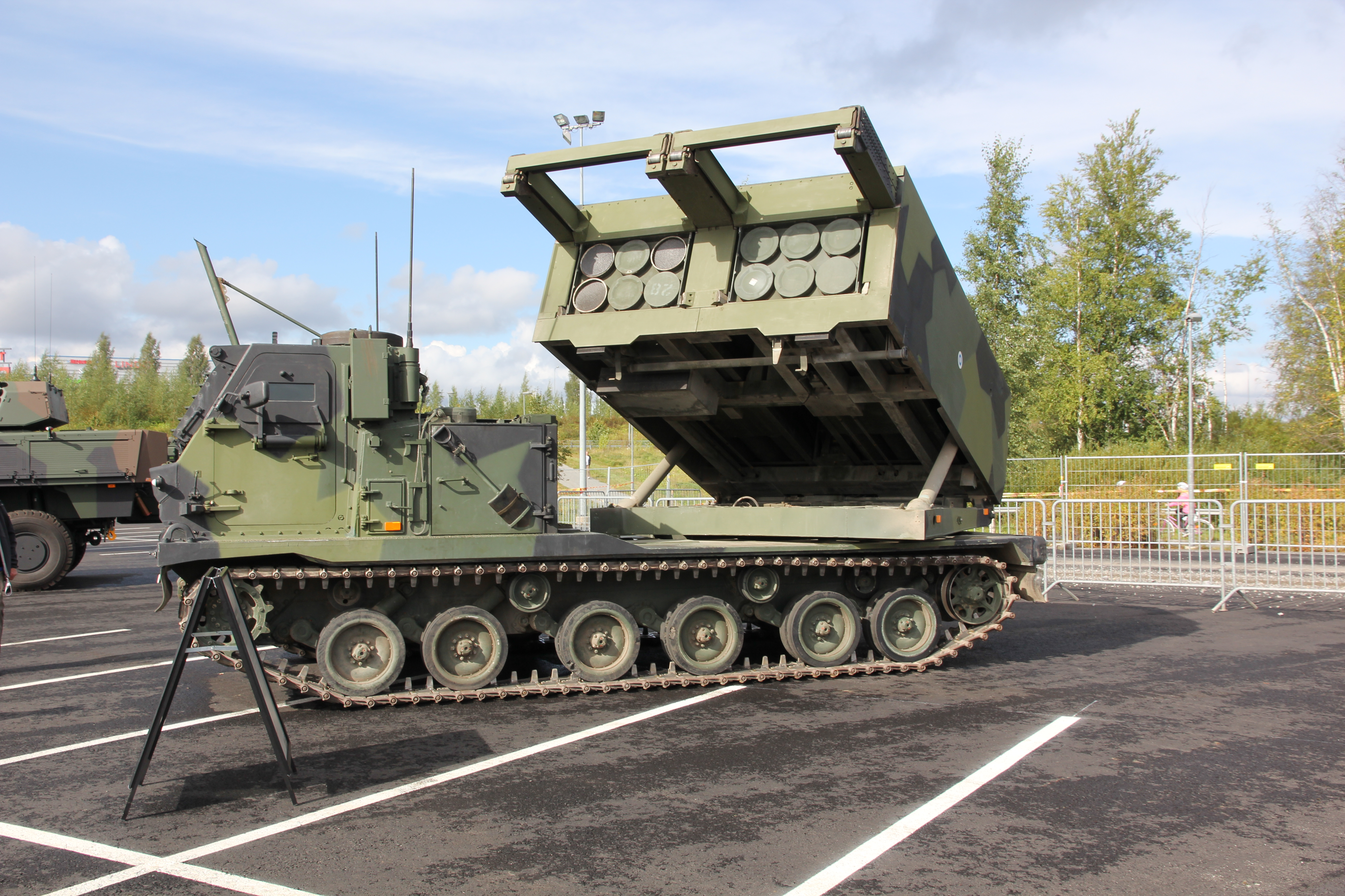 Finnish military M270 MLRS Ps 529-13 on display at Comprehensive security exhibition 2015 in Tampere.